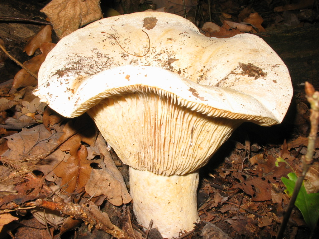 Russula delica, found in a small forest in south bavaria